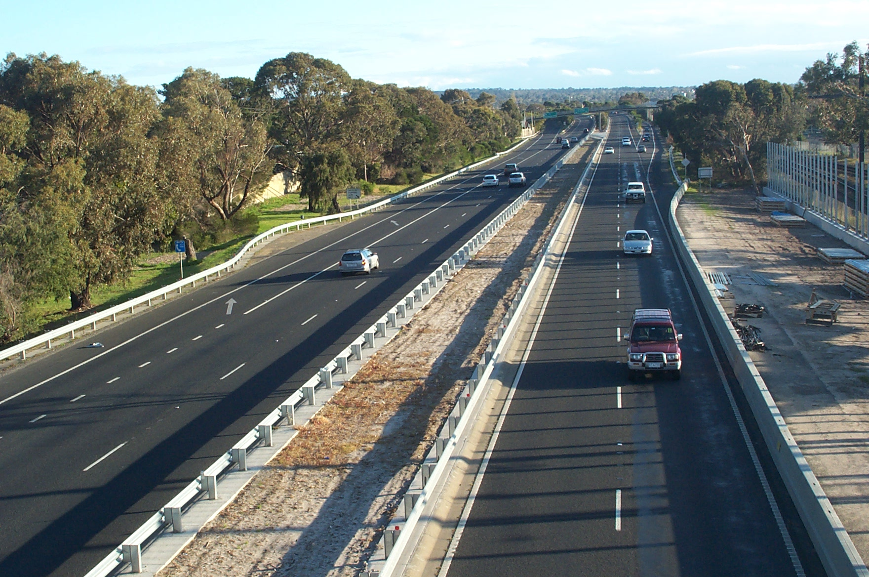 Frankston Freeway. View from pedestrian overpass looking south.